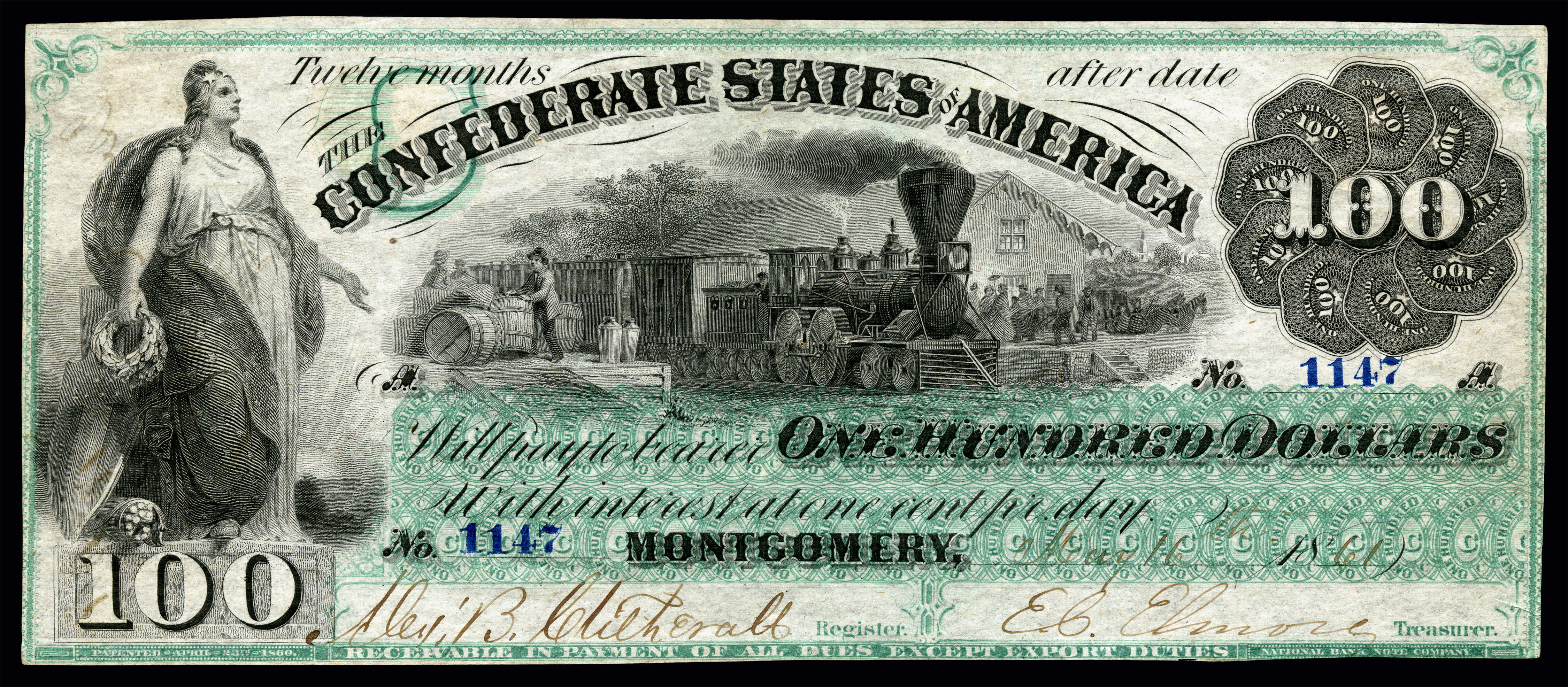 First series $100 Confederate States of America banknote. Uniface. Engravings of Ceres and a railroad vignette. First series (Act of March 9, 1861 amended August 3, 1861), interest bearing at 3.65%, total authorized circulation $1,000,000. Between 1861–64 there were 72 different types issued with numerous varieties.